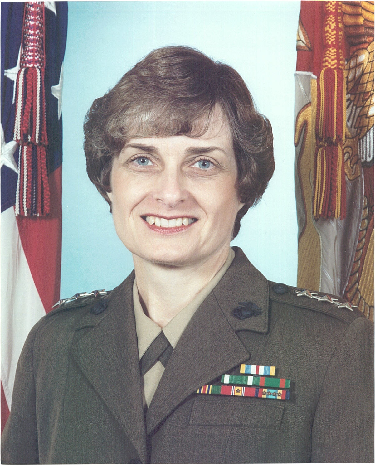 Lieutenant General Carol Mutter, United States Marine Corps (Marine Corps photo)